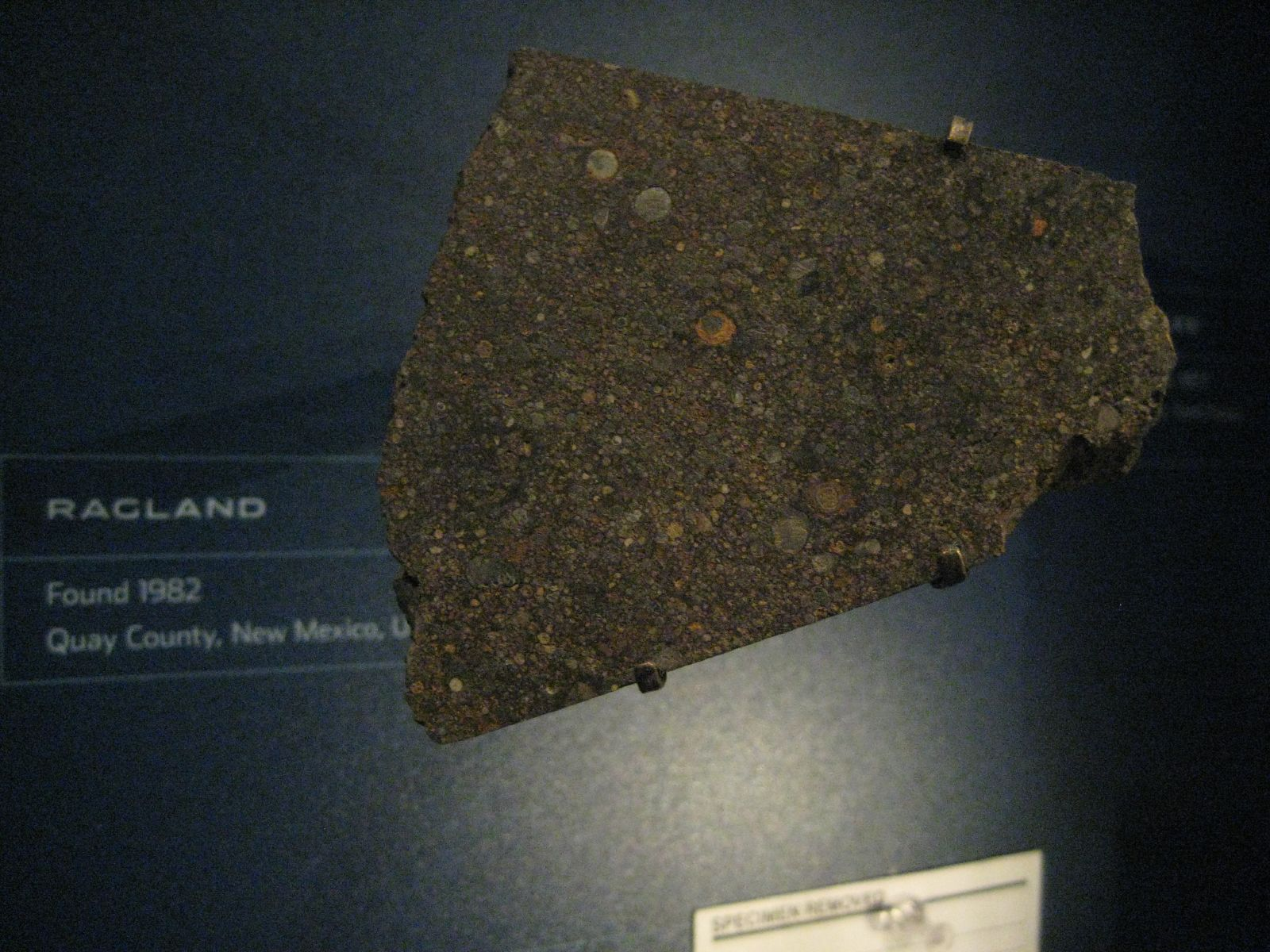 Ragland meteorite. Found 1982, Quay County, New Mexico. AMNH.